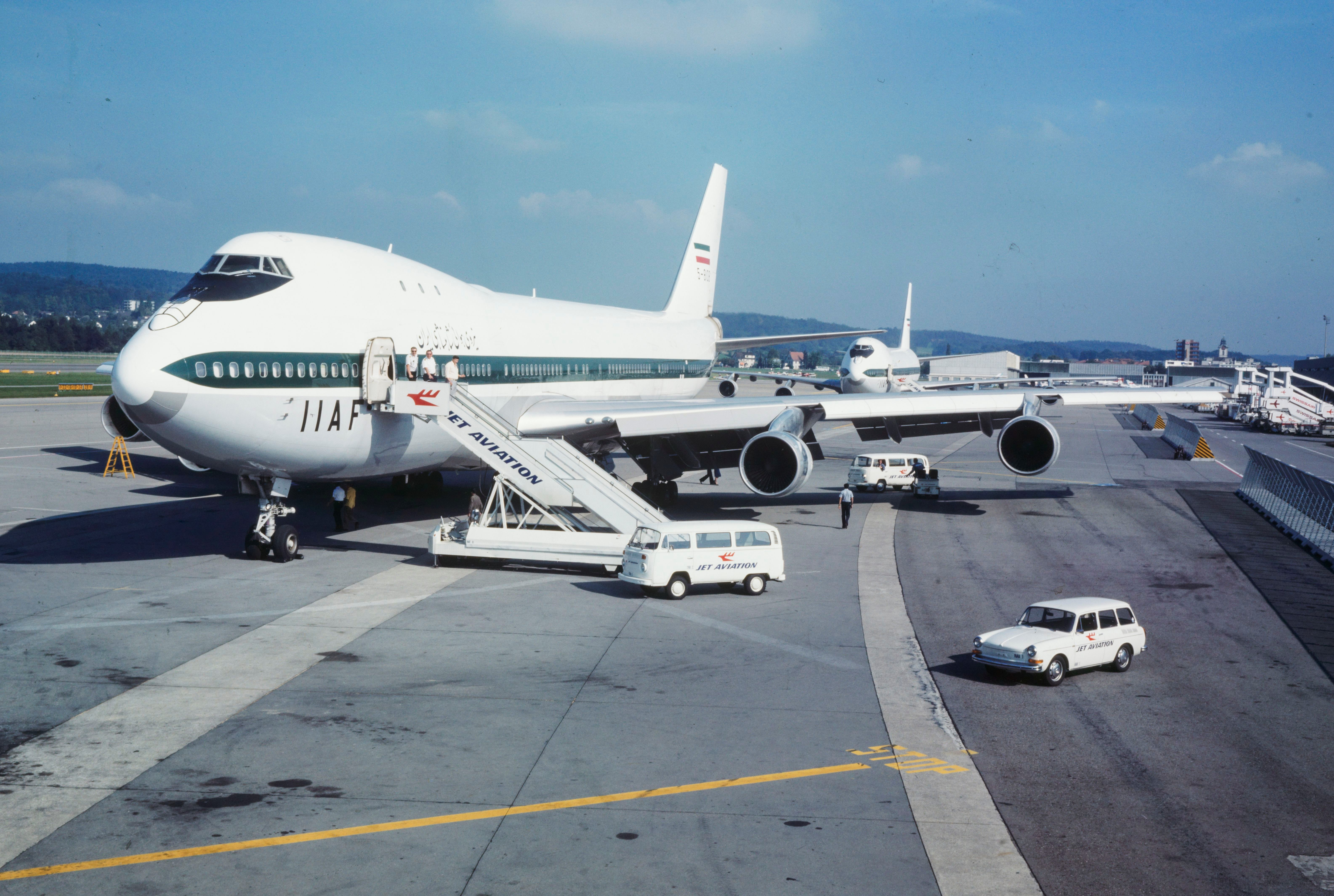 Boeing 747 of the Iranian Air Force at Kloten - serial is 5-808